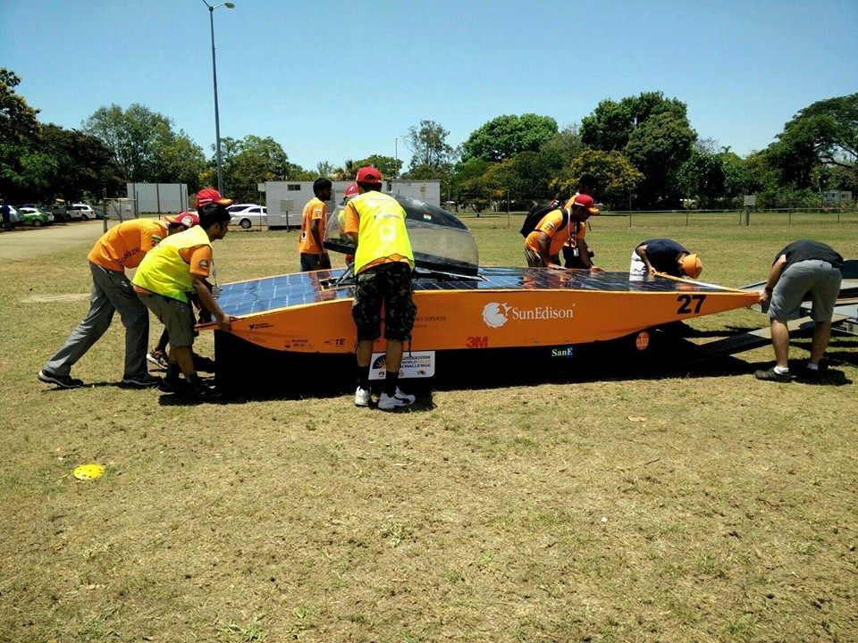 The team fixing up the car before the scrutineering